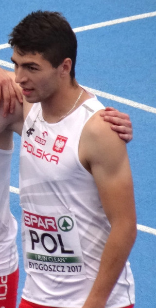 2017 European Athletics U23 Championships, 4x100m relay men final